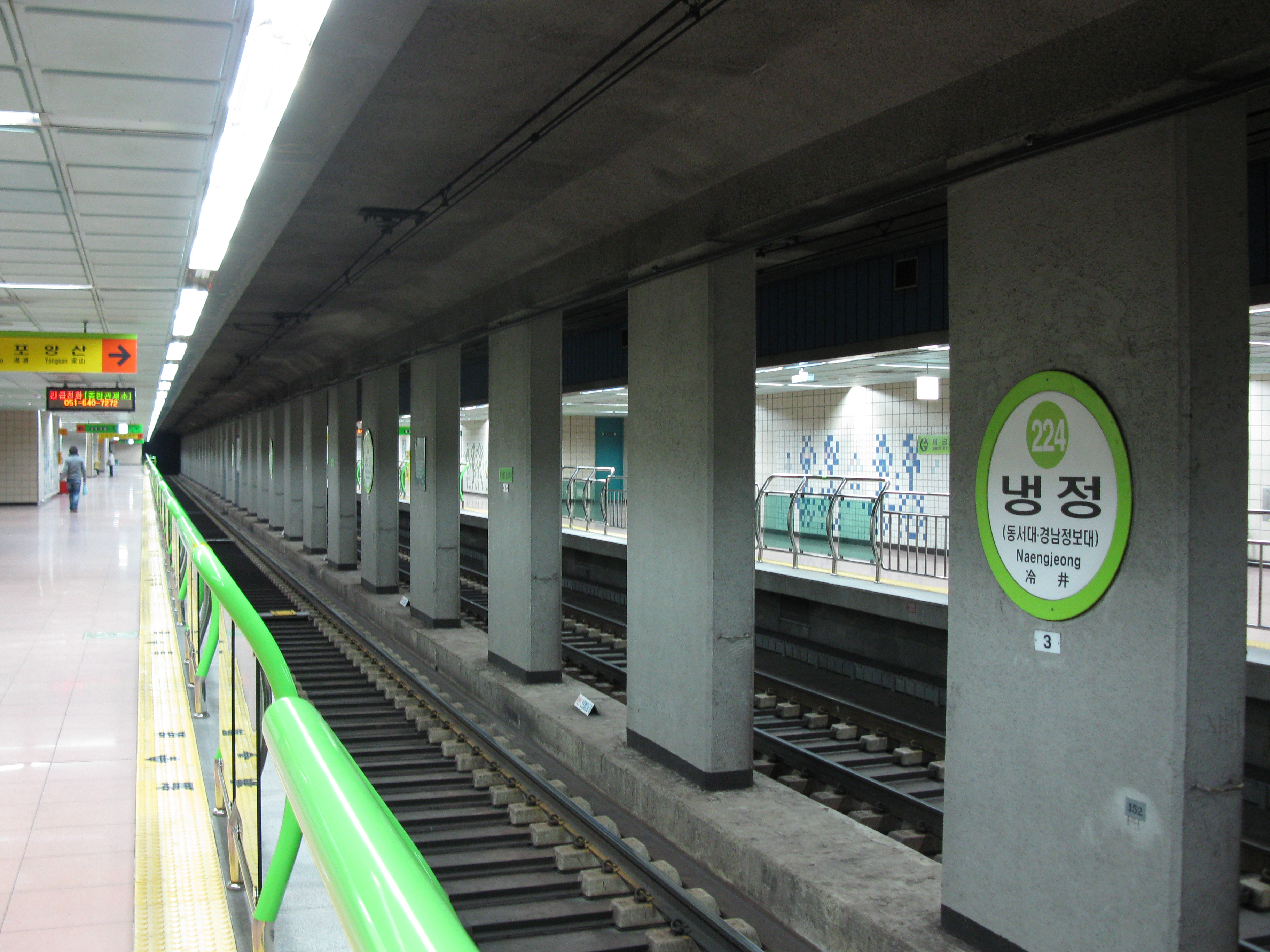 Naengjeong Station platform (Busan Subway Line 2)